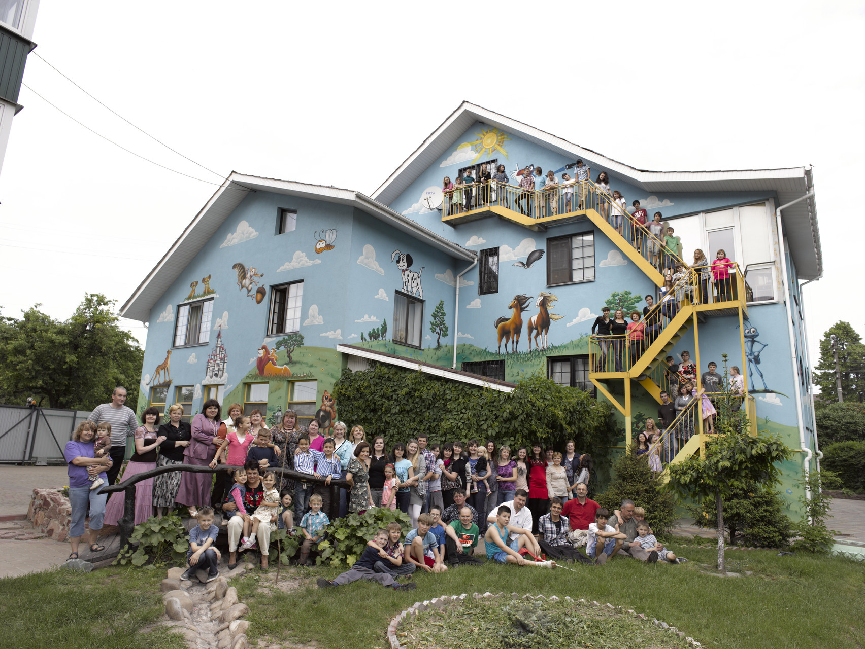 «Otchiy Dim» «Father's House»